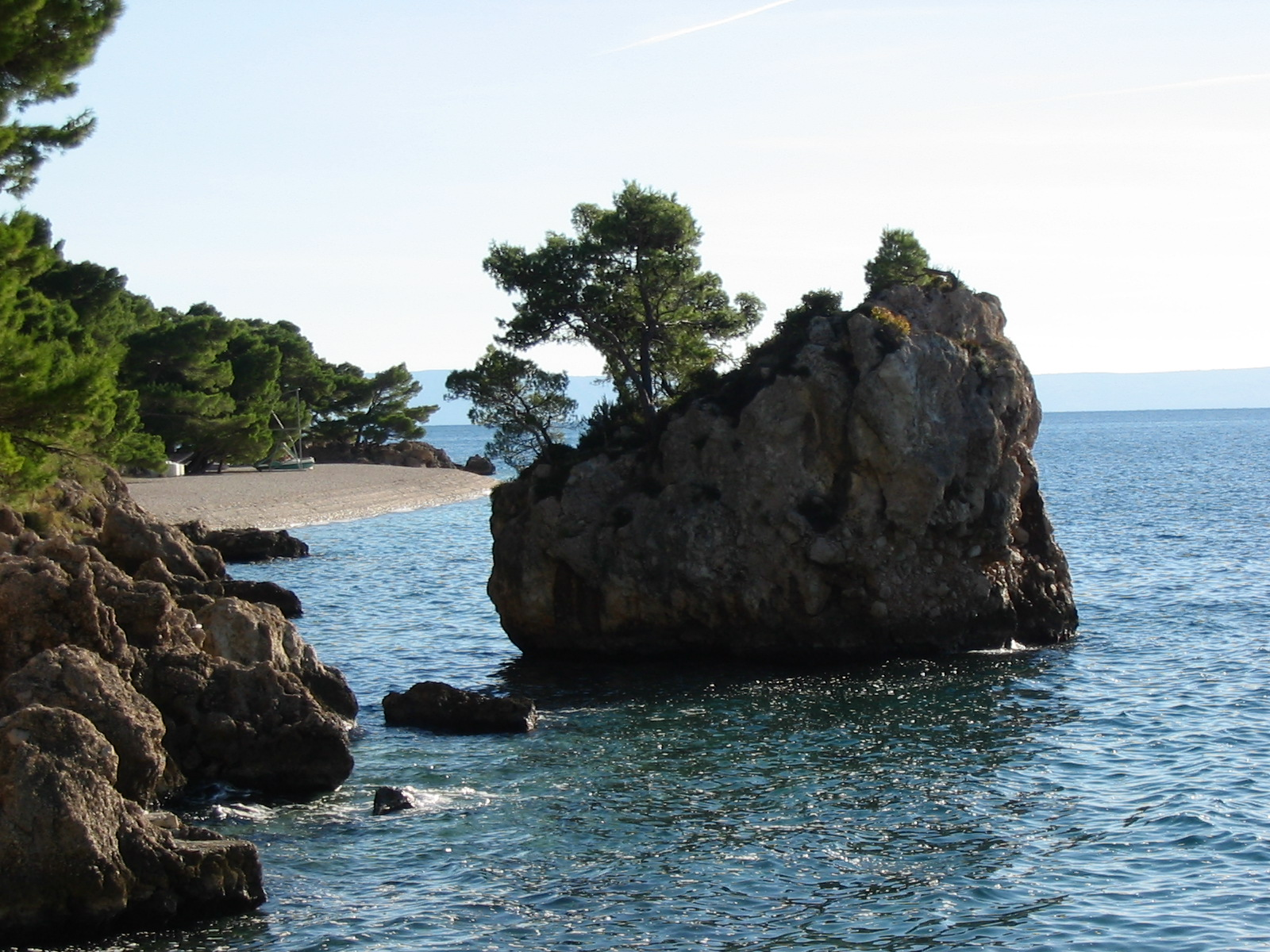 "Kamen Brela" and Punta Rata beach in Brela.